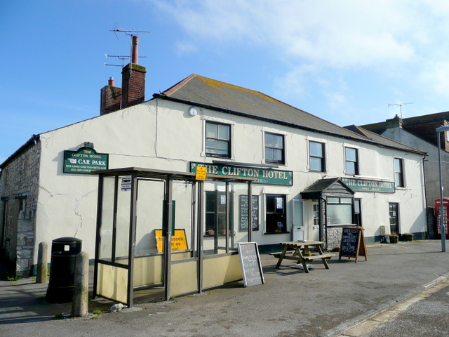 Clifton Hotel, Grove The tavern for the community of Grove in the east of Portland.